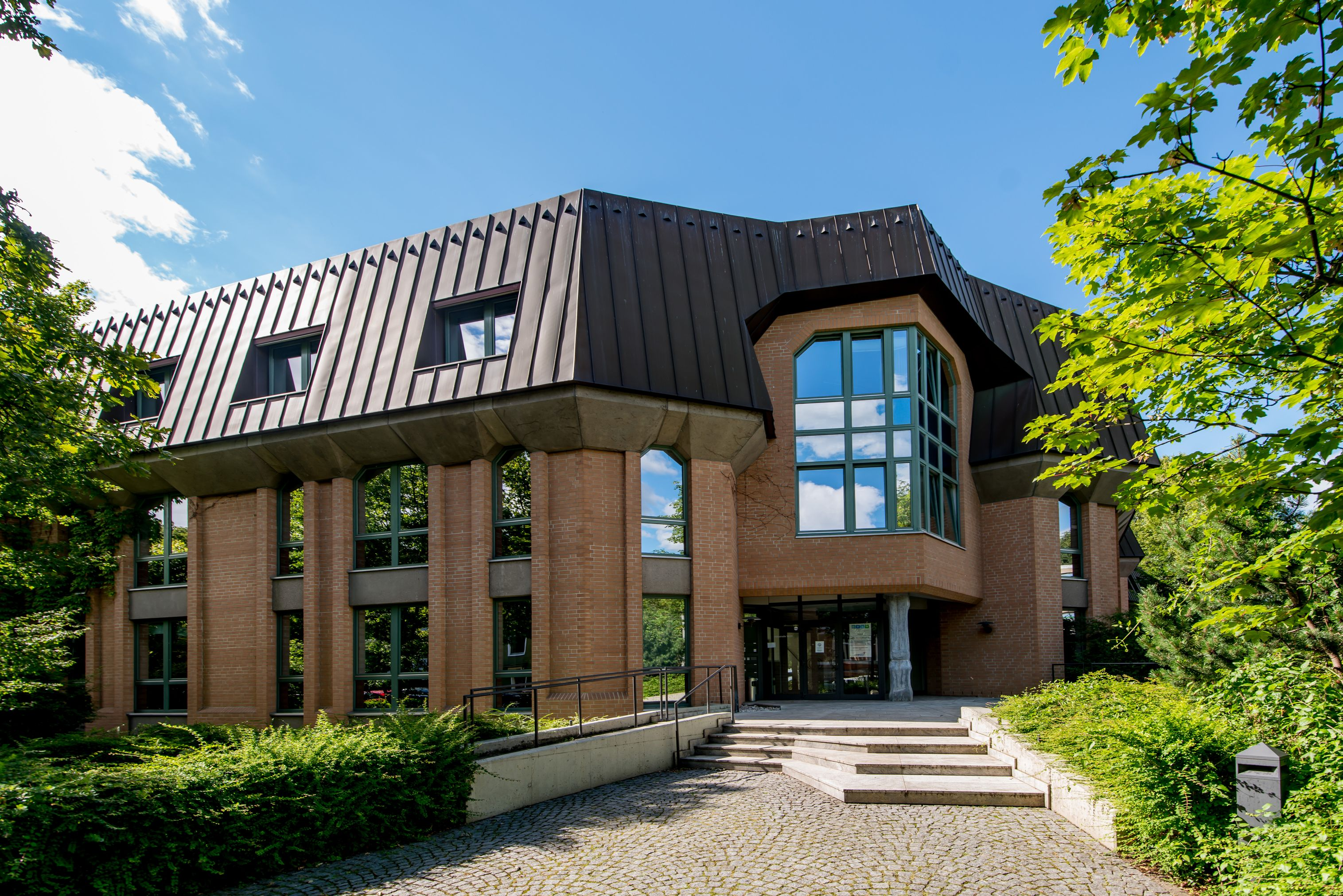 Der Stammsitz des BNW in der Höfestr